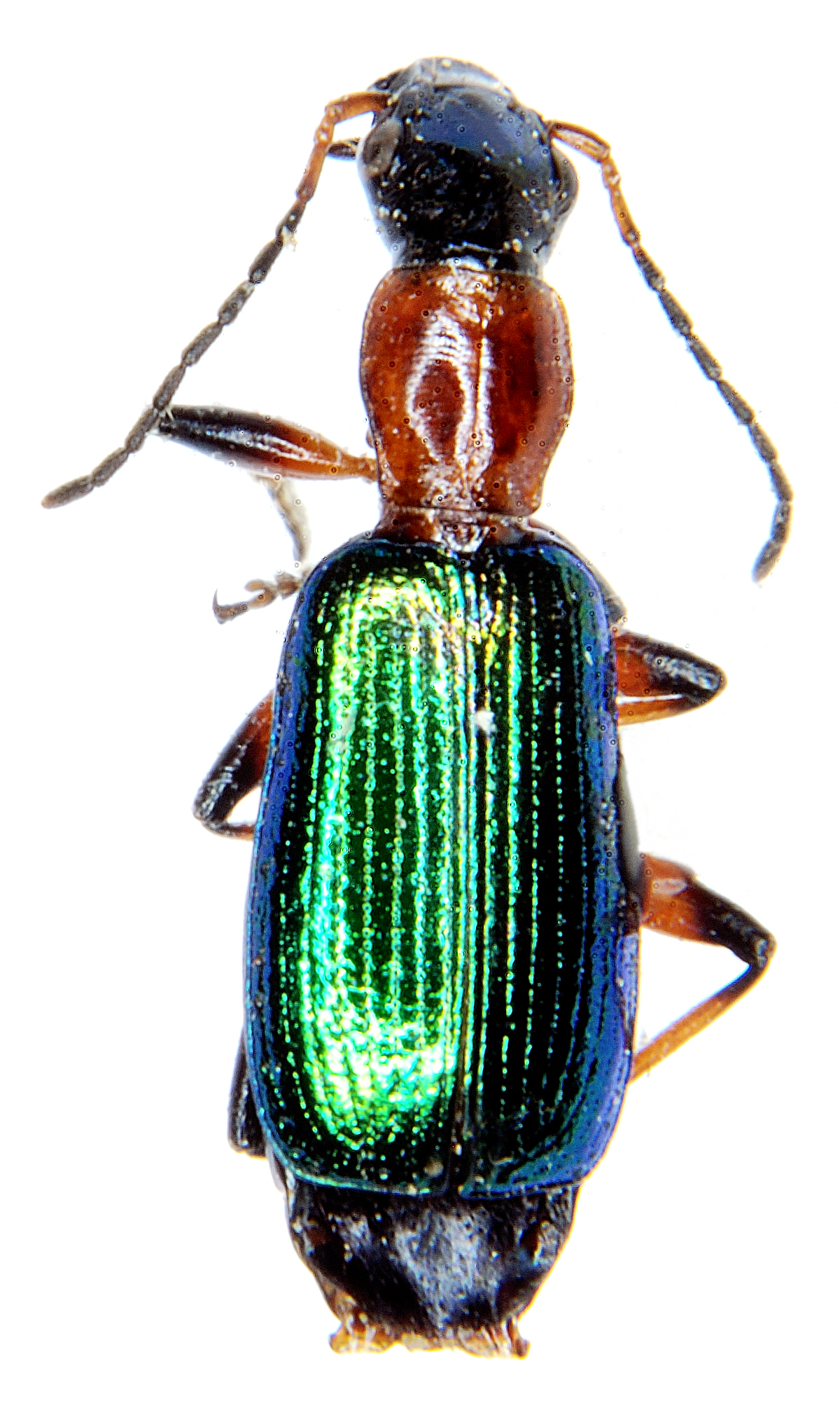 Specimen of a carabid beetle, Calleida punctata (LeConte), collected in USA: Connecticut: West Haven, 4-Jun-1985, collector M.K. Oliver, in collection of same.